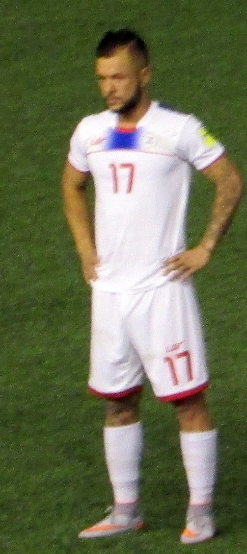 Stephan Schröck with the Philippine national team. Philippines v. Maldives friendly. September 3, 2015.